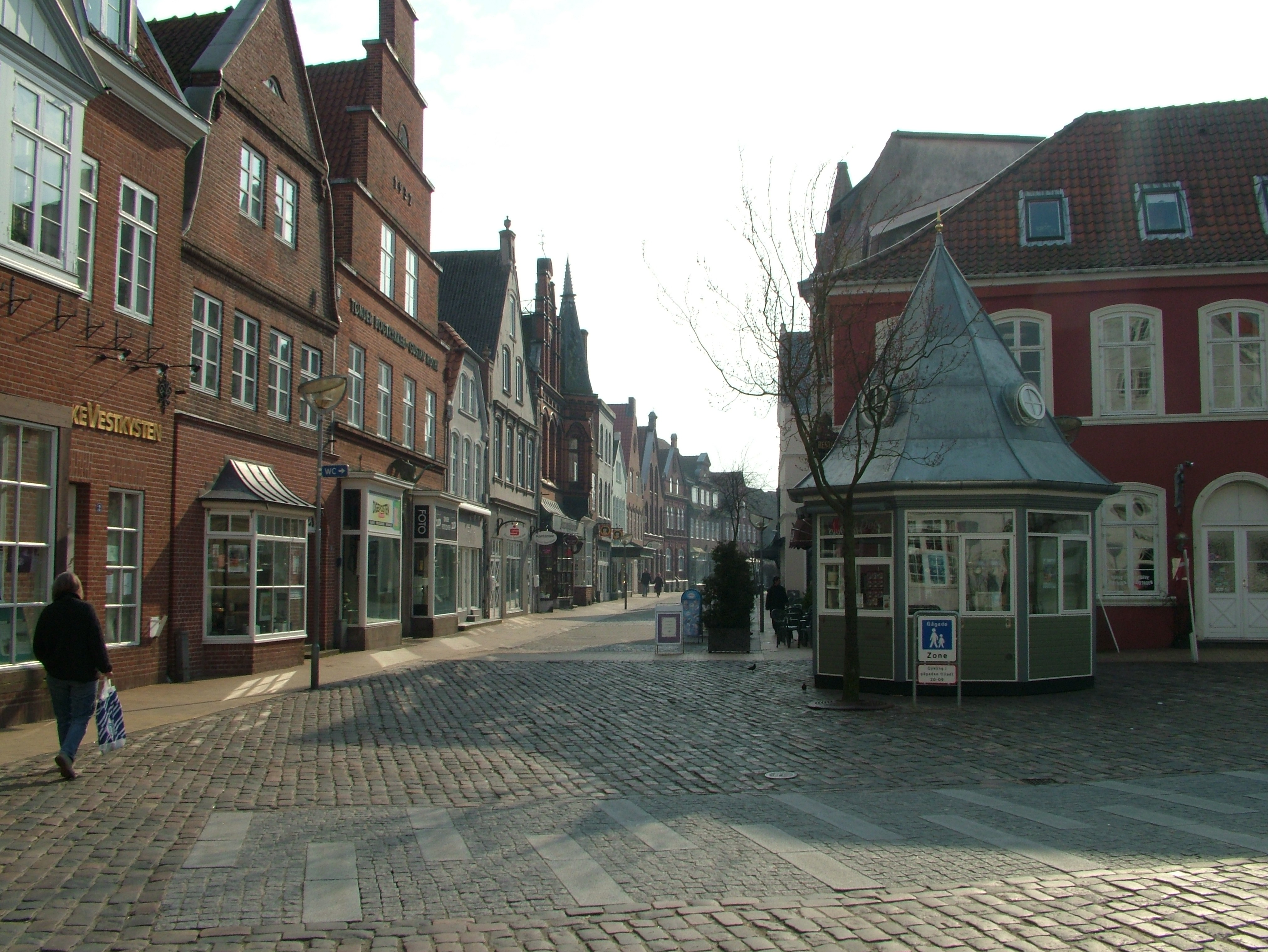 Storegade seen from the main square